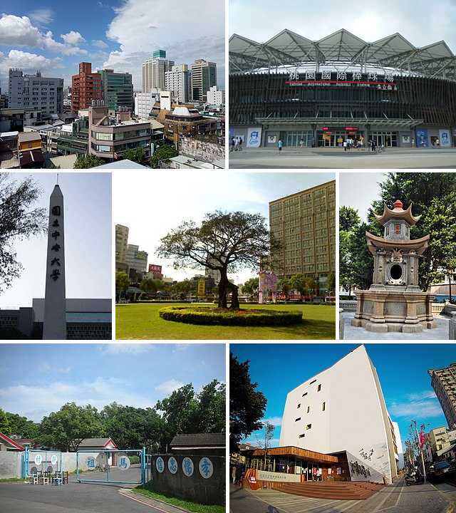 Montage of Zhongli City, Taoyuan County.